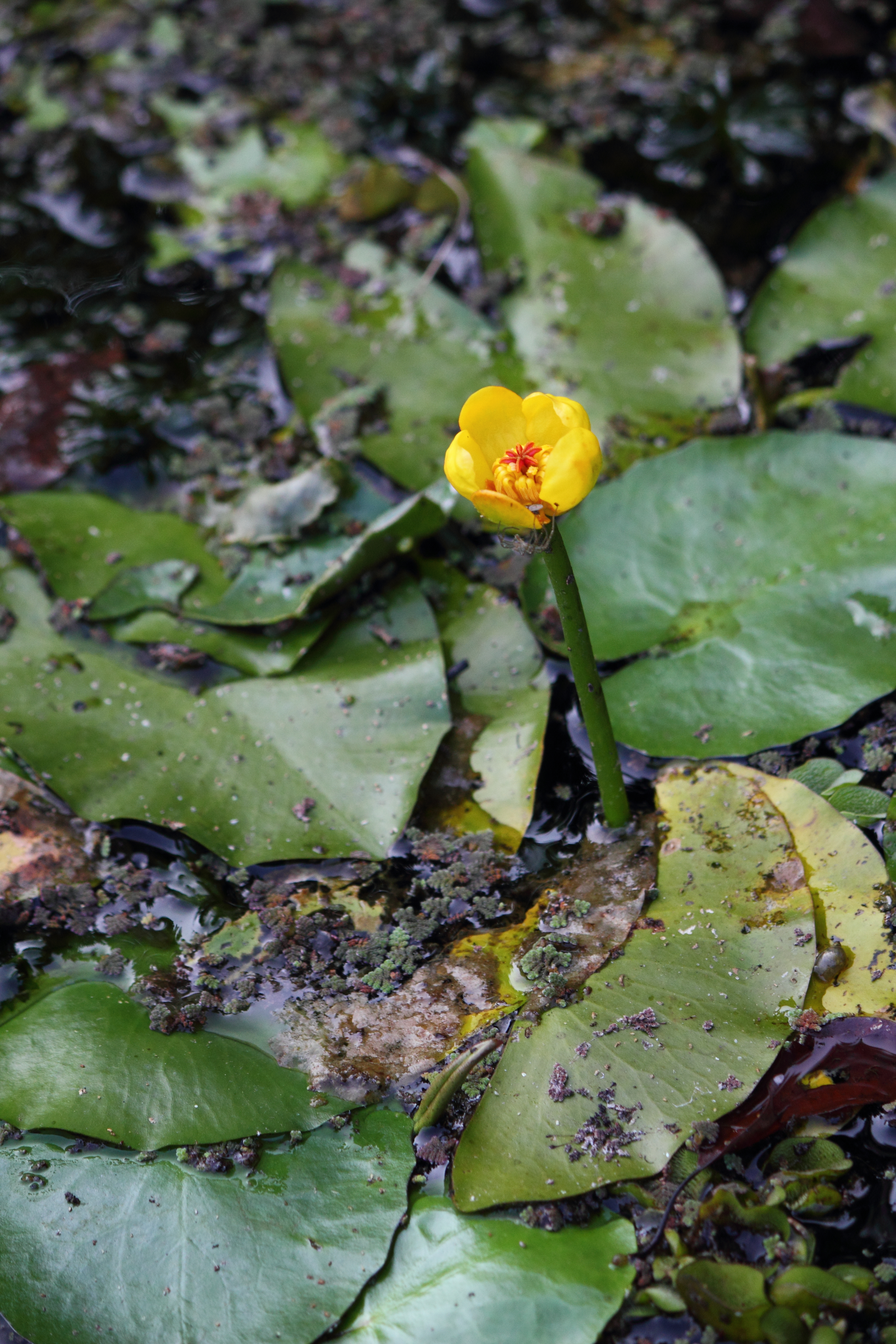 台灣萍蓬草 Yellow Water Lily(Nuphar shimadai)